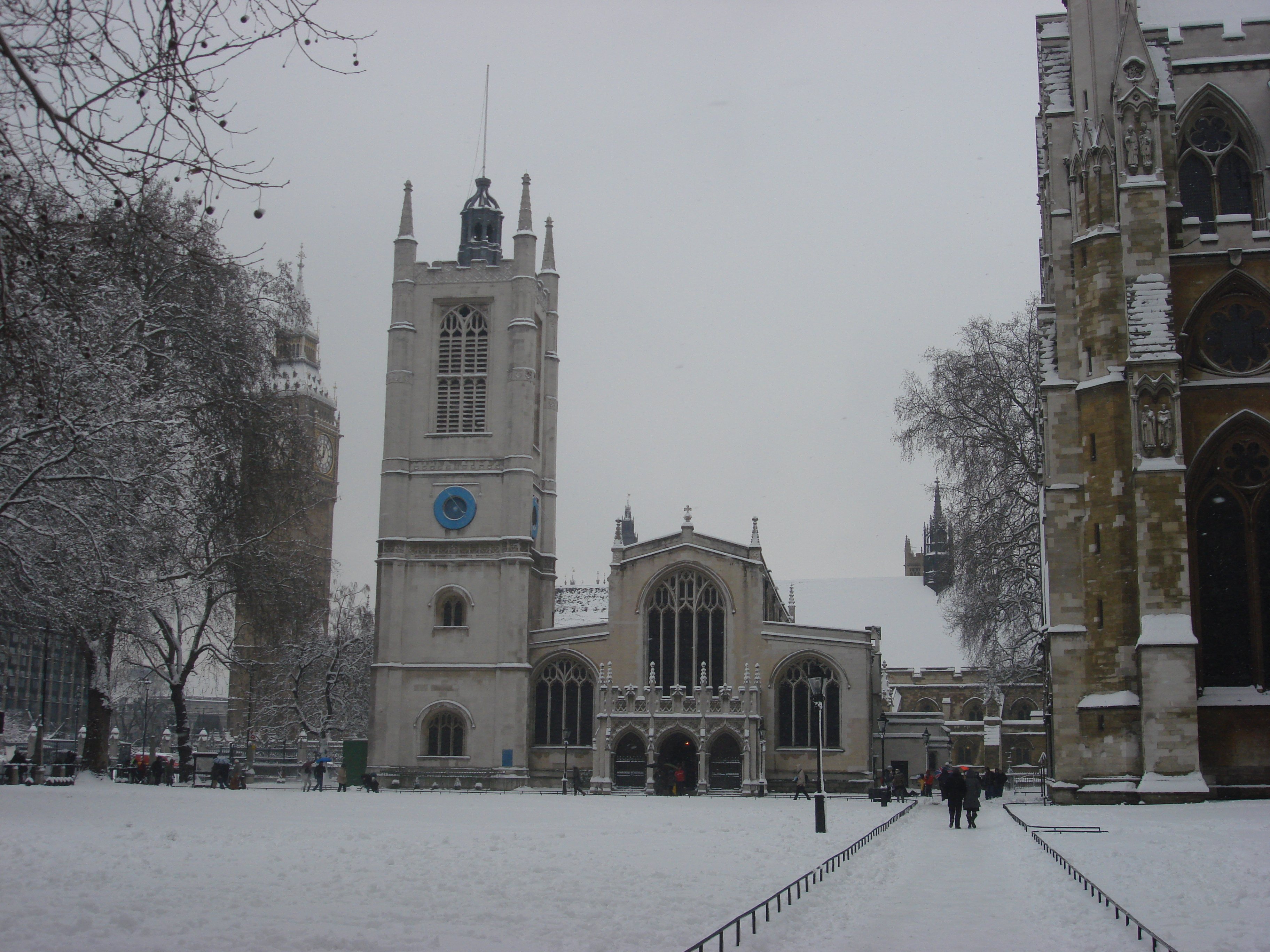 London in snow 2 February 2009